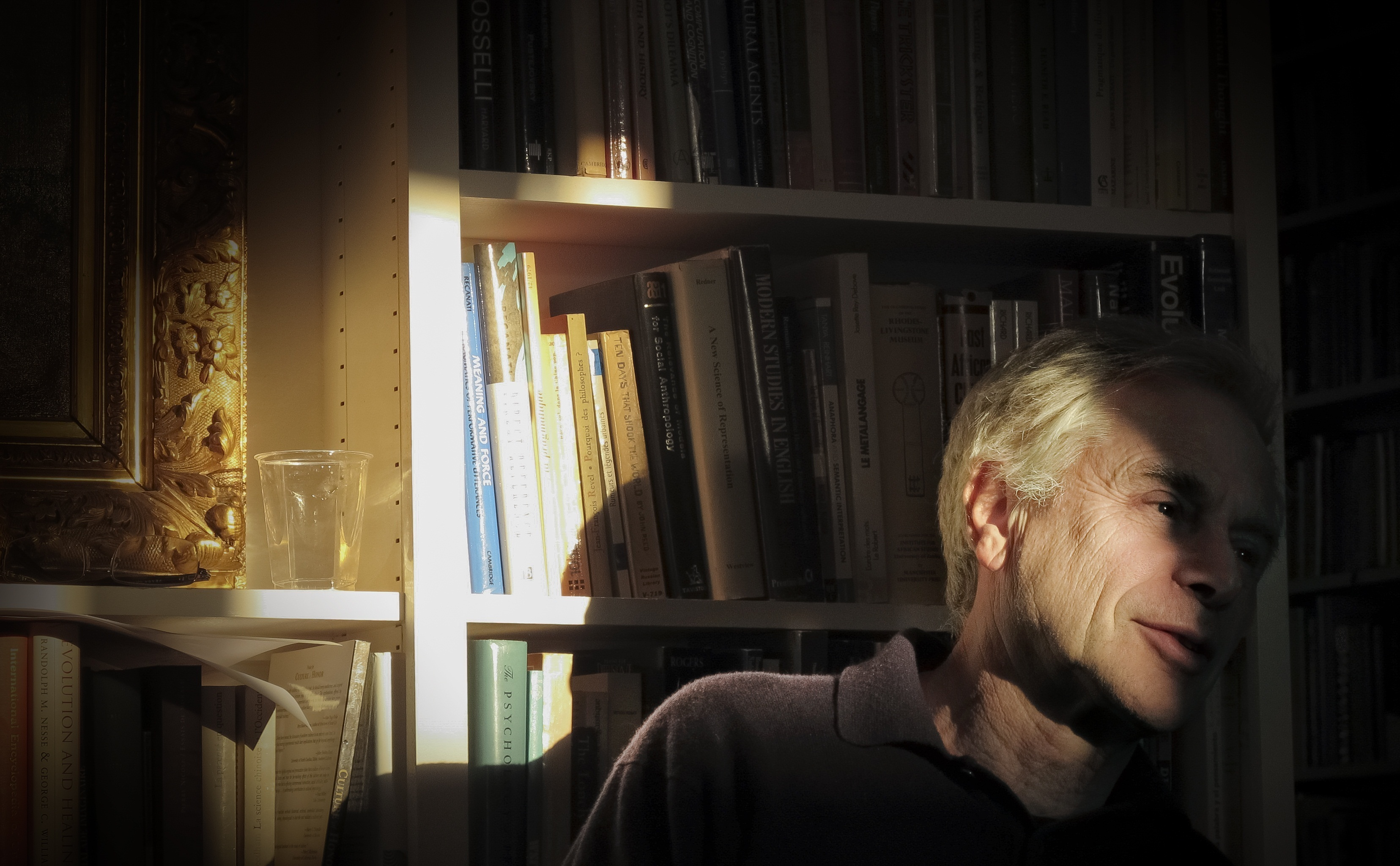 Dan Sperber, Paris, 11 December 2012 (Photo by Jean-Luc Jucker)